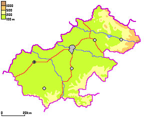 Blank map of Satu Mare County, Romania